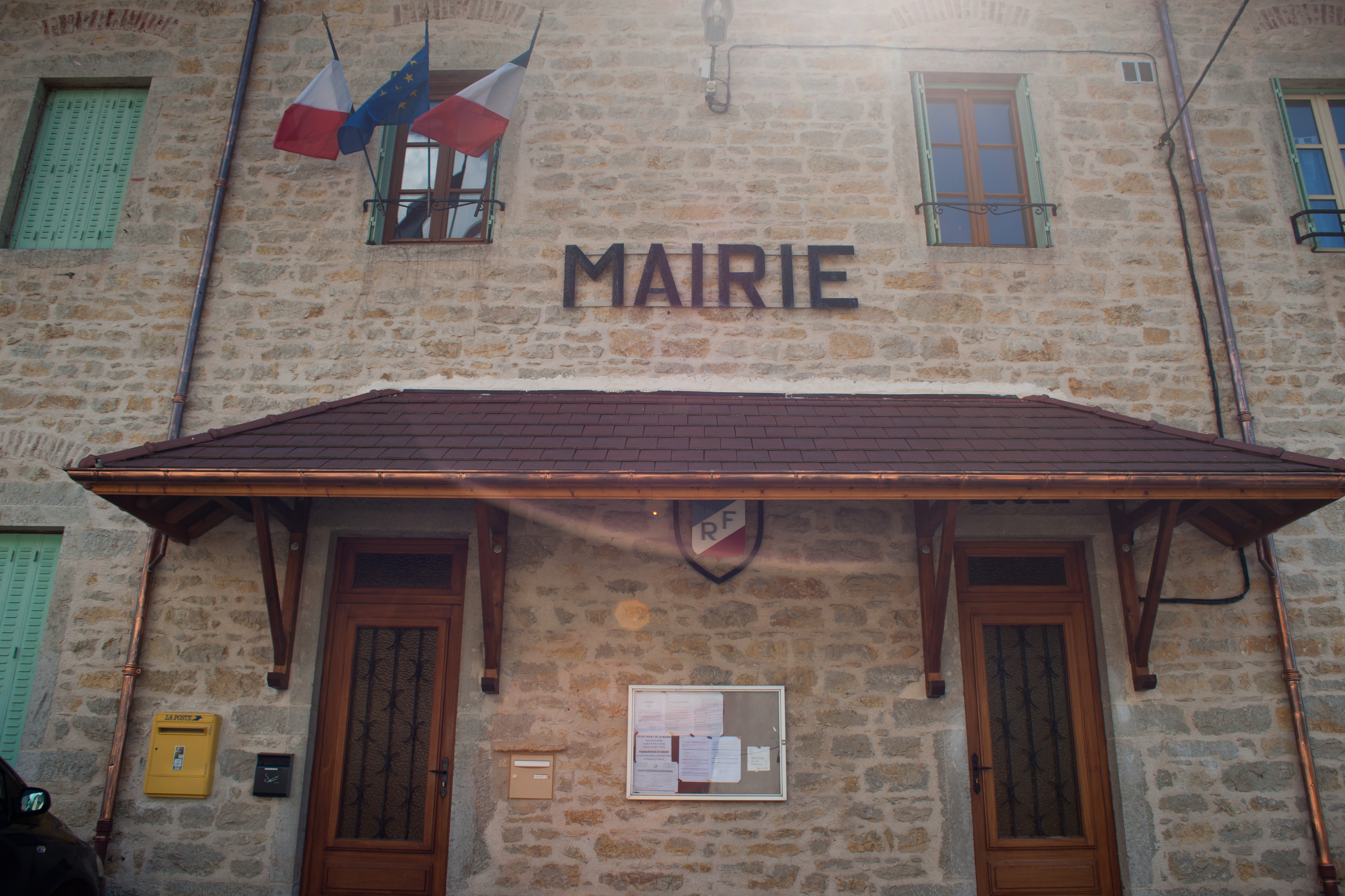 Townhall of Arandas, France.